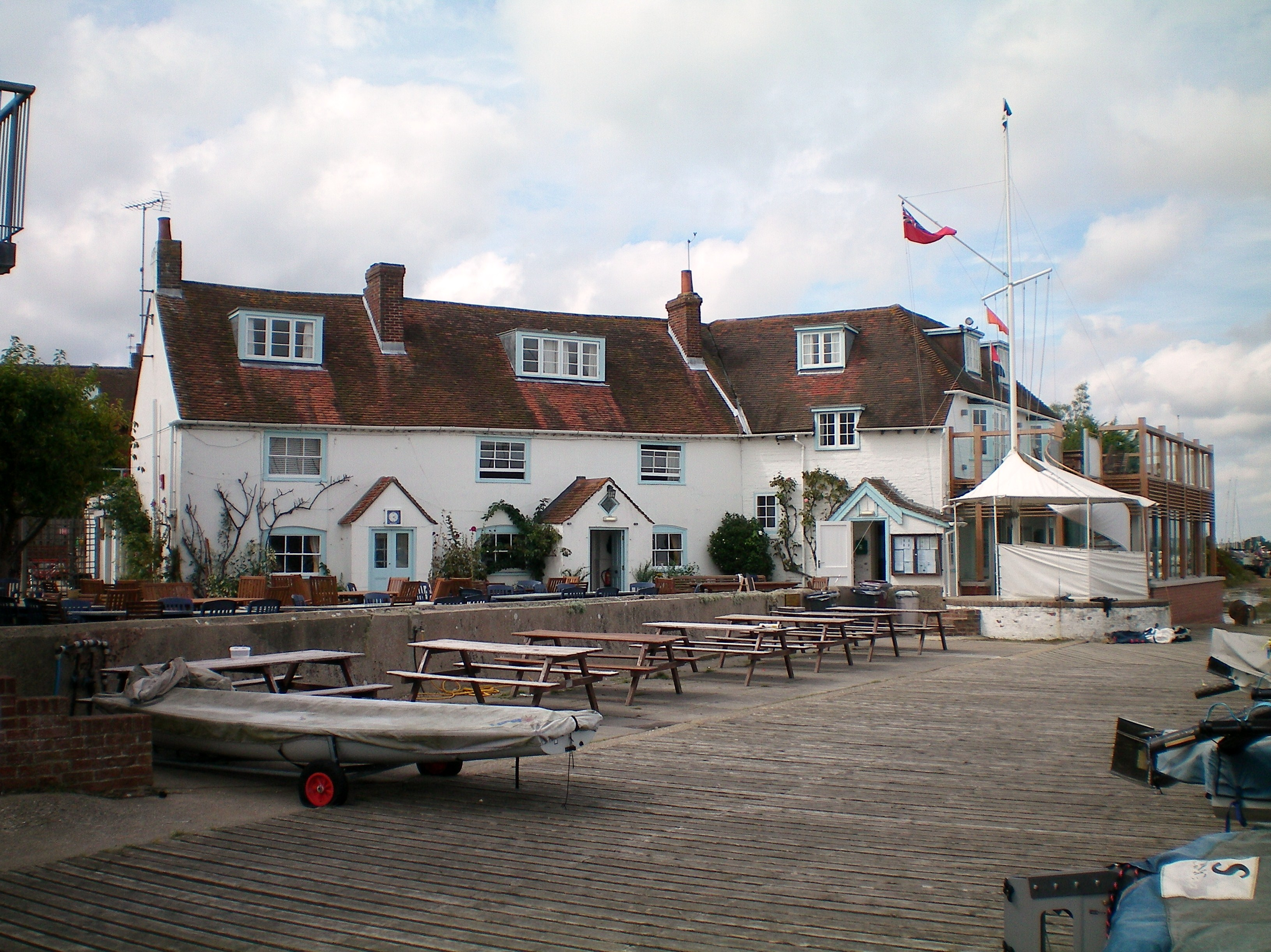 West Itchenor Sailing Club, West Sussex, England.